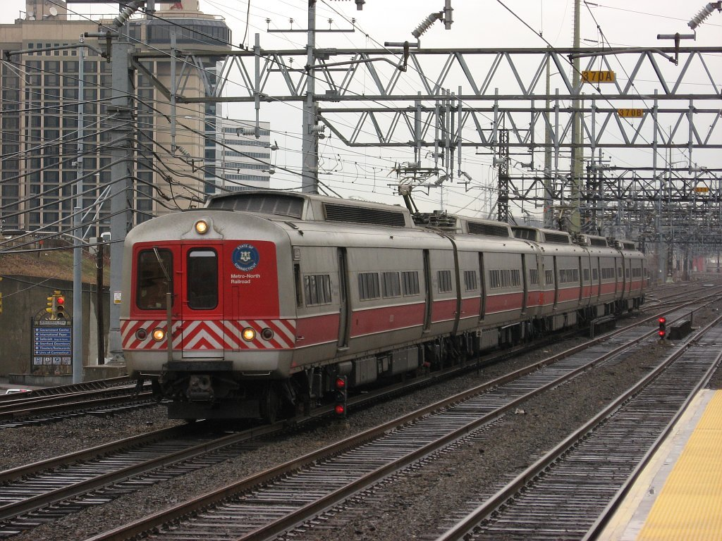 Metro-North Railroad train 1567 from New Haven to New York entering Stamford